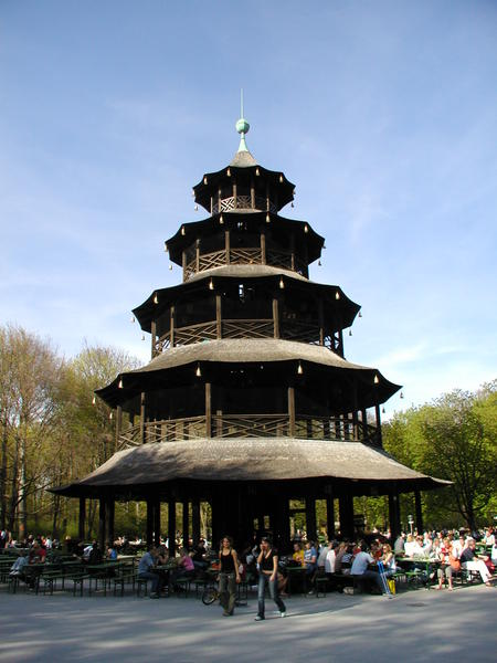 Chinesischer Turm, Englischer Garten, Munich, Germany.